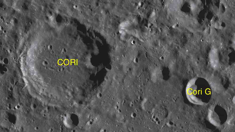 Part of the chart LAC-133 used for the presentation